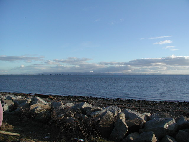 Solway Firth beach near Newbie. view over Solway Firth towards snow covered Skiddaw about 36km away